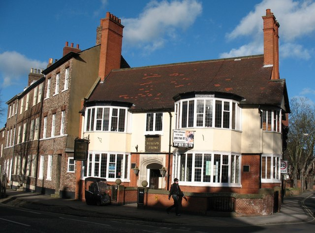 The Burton Stone Inn On the corner of Clifton and Burton Stone Lane, the pub [built 1897] is named after the stone cross base which stands at the front of the pub. The deep shadow unfortunately masks the stone which is behind railings only a metre or so in front of the pedestrian.